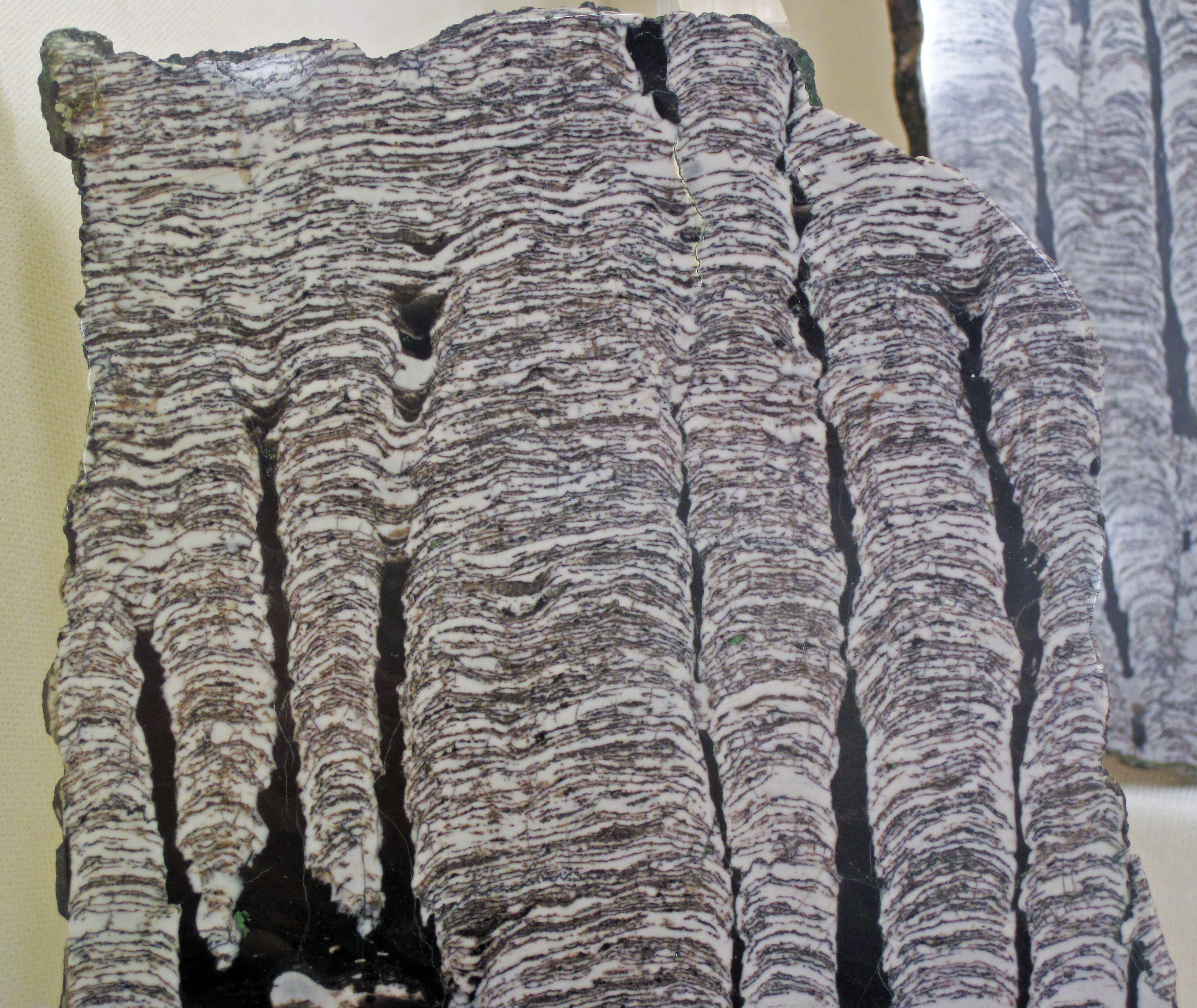 Stromatolitic limestone from the Precambrian of Russia. (Cranbrook Institute of Science collection, Bloomfield Hills, Michigan, USA) Stromatolites are large, layered structures built up by mats of cyanobacteria. Stromatolites vary in appearance, ranging from slightly wrinkled horizontal laminations in sedimentary rocks to low mounds to prominent mounds to columnar structures and other forms. Stromatolites are most common in the Proterozoic fossil record. They are scarce today, but famous modern examples occur at Shark Bay, Western Australia. Stratigraphy: Chencha Formation, upper Zhuya Group, Vendian (Ediacaran), upper Neoproterozoic, ~580 Ma Locality: apparently derived from the Patom Upland, Siberia, Russia